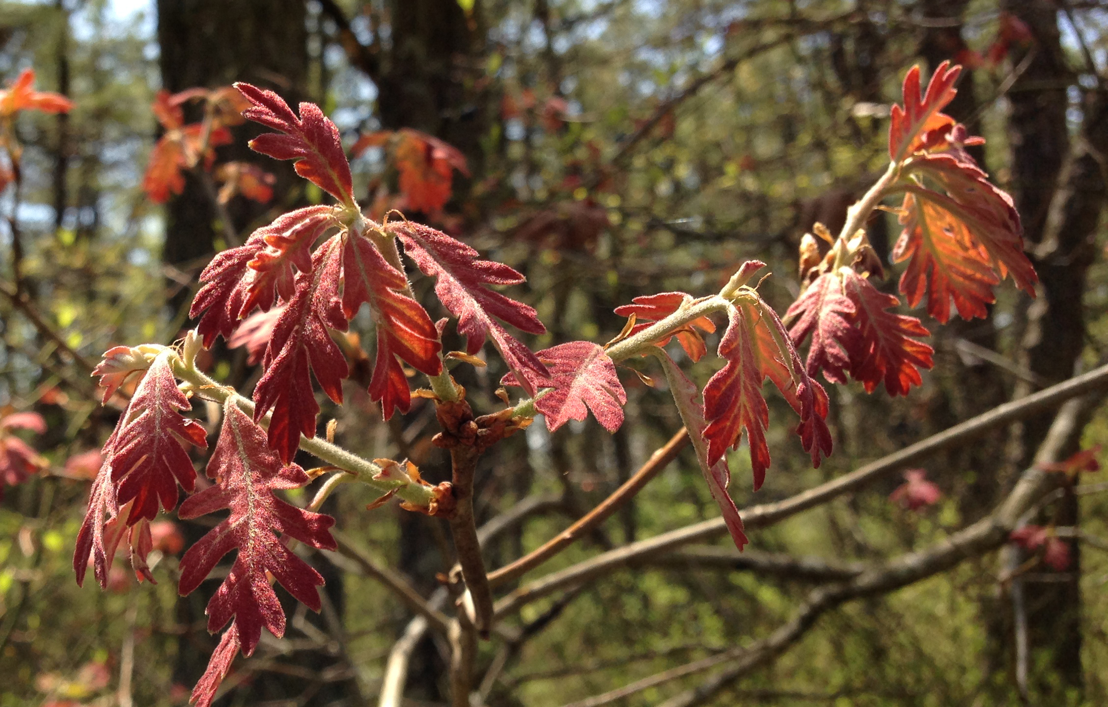 New foliage of Quercus alba (White Oak) along the Mount Misery Trail in Brendan T. Byrne State Forest, New Jersey